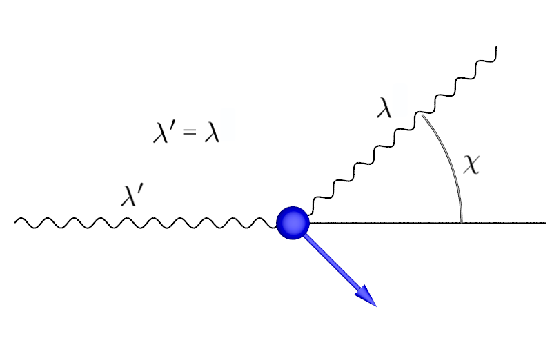 thomson scattering